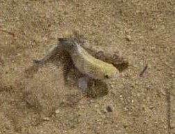 Photograph of a male (yellowish color) and female (sandy color) Death Valley Pupfish (Cyprinodon salinus) spawning in Salt Creek.